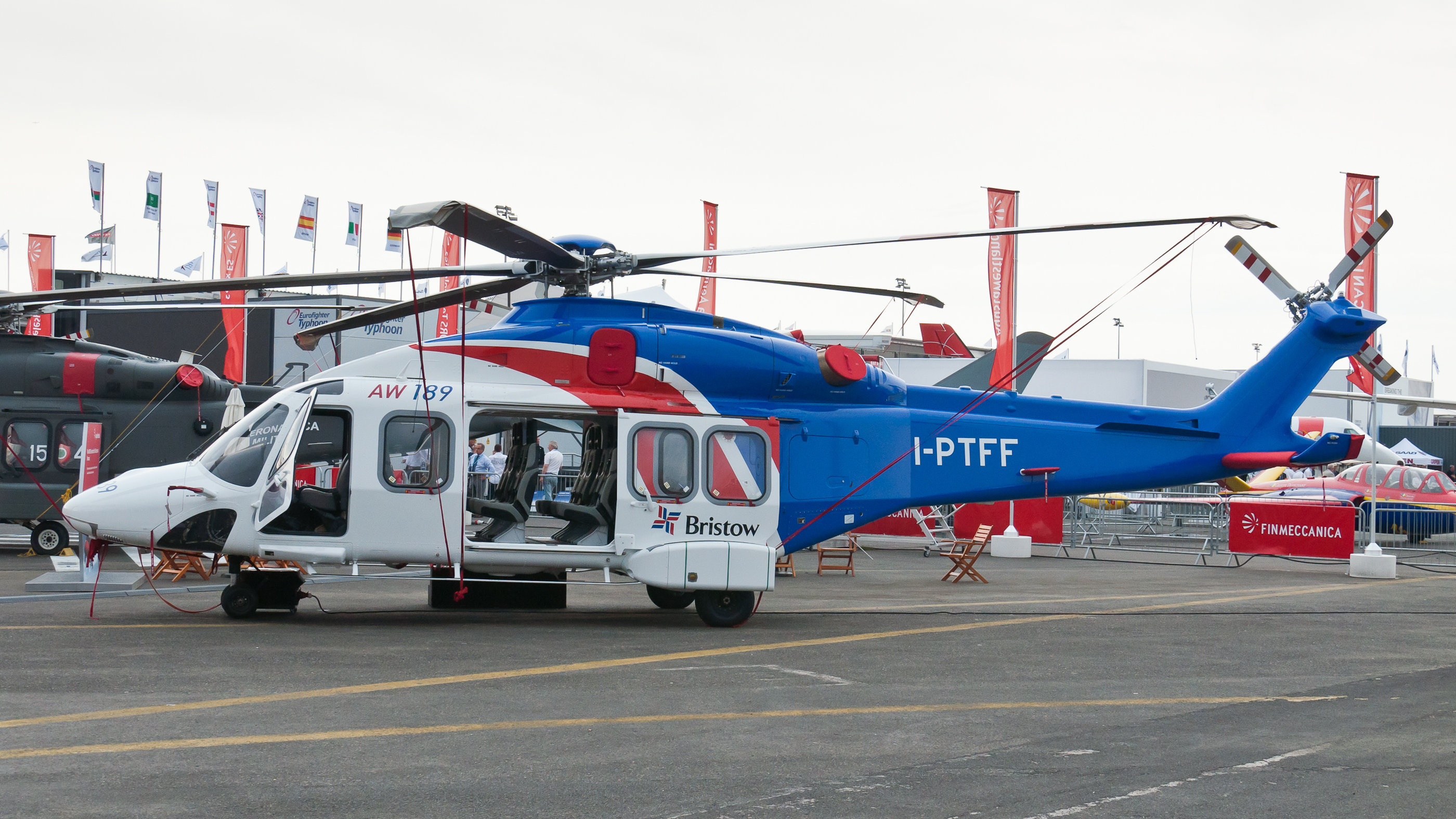 AgustaWestland AW189 (reg. I-PTFF, c/n 49005) at Paris Air Show 2013.